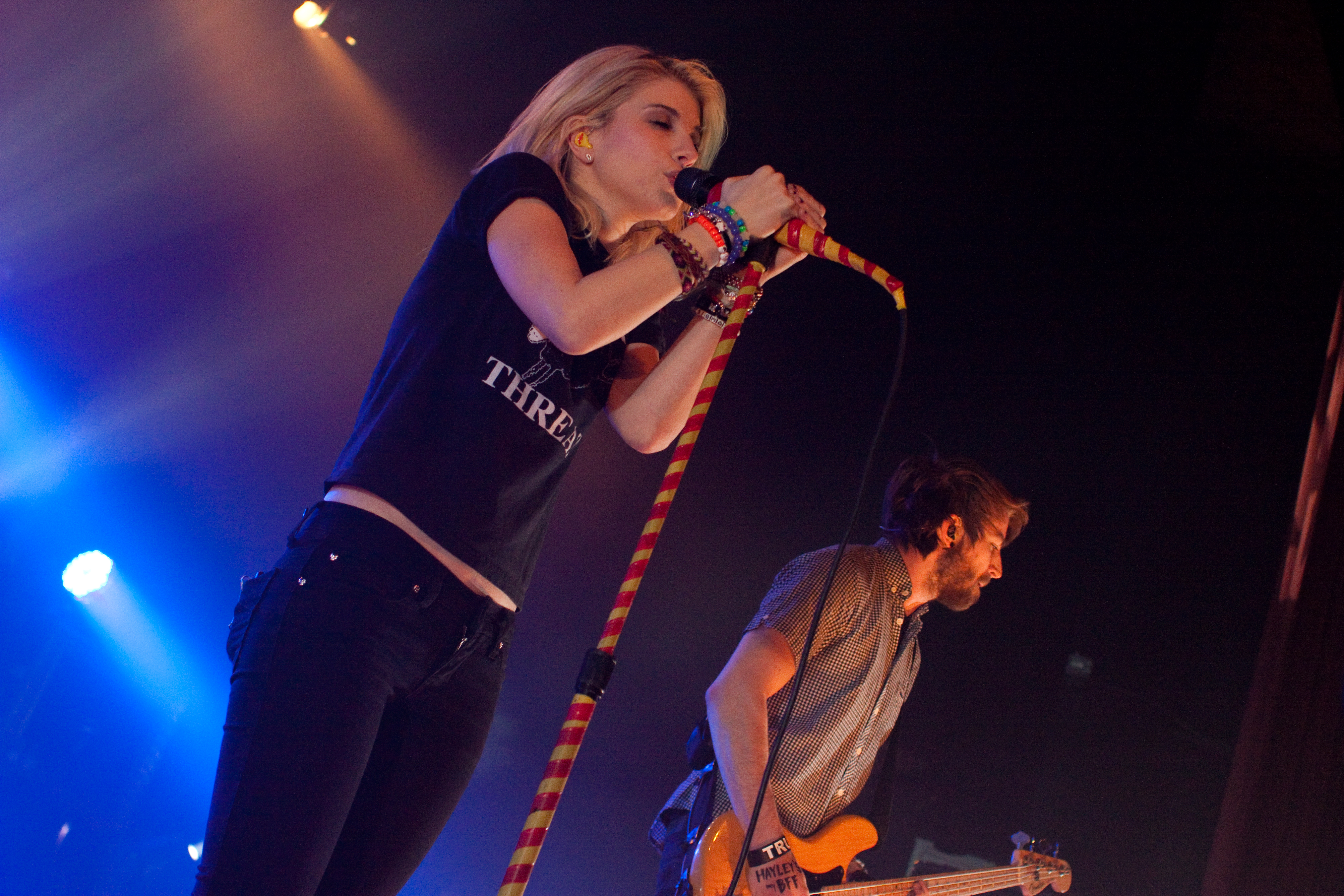 Paramore at the Warfield